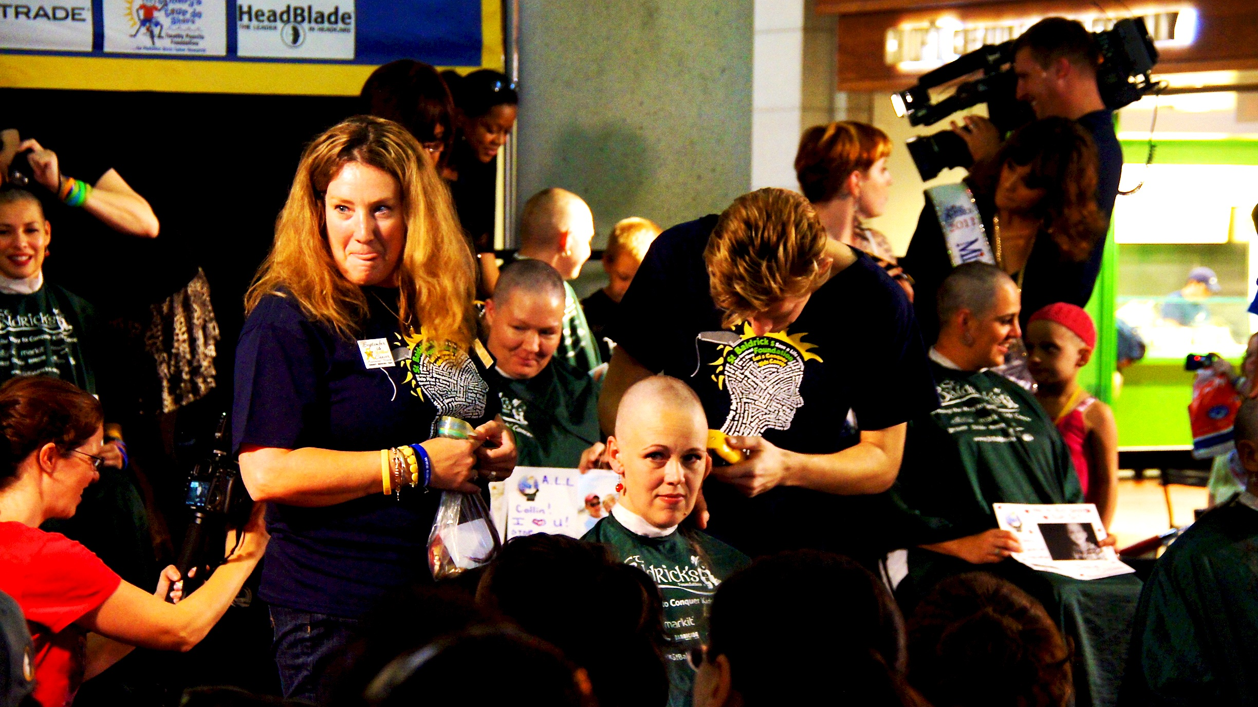 Mothers shaving there heads at the "46 Mommas" annual meet held at Washington D.C on September 21,2011